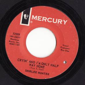 Cryin' and I'm Only Halfway Home by Shirlee Hunter, Mercury [year unknown].